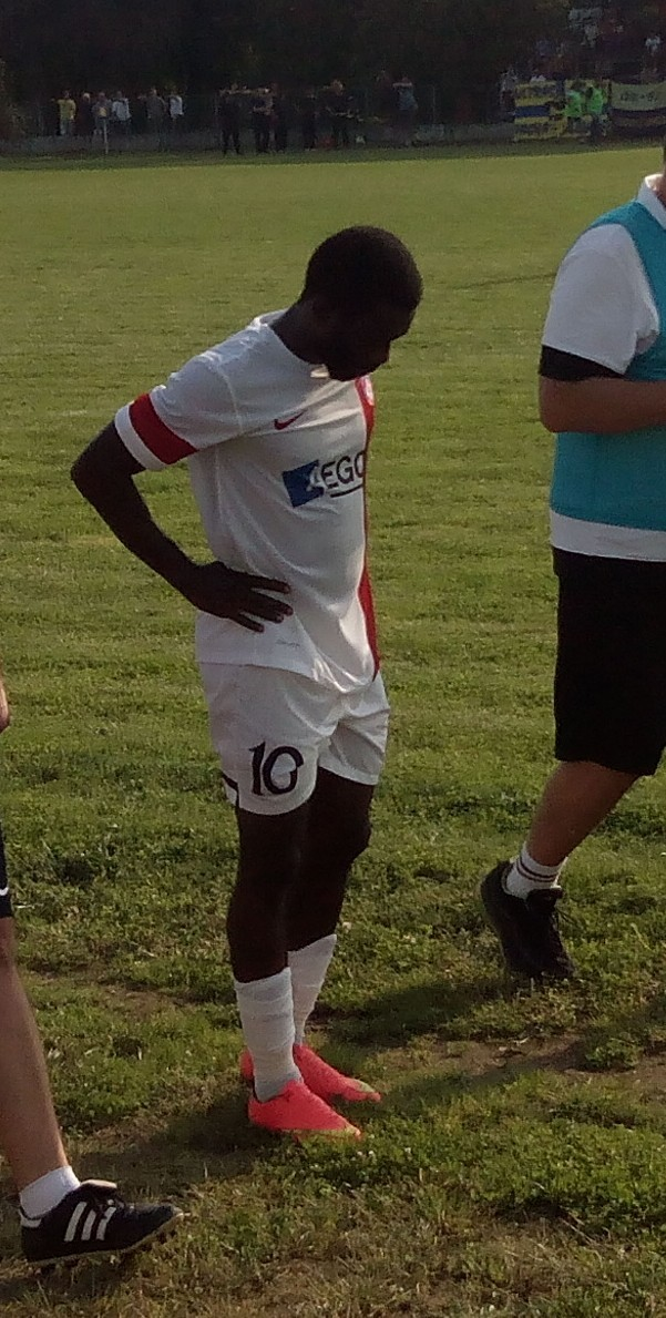 IQual, own work: shooted in Strážske by THL W8S, (Rabiu Ibrahim /AS Trenčín/ during Slovnaft cup match against ŠK Strážske on 13th August 2014. Photo - Nigerian footballer Rabiu Ibrahim